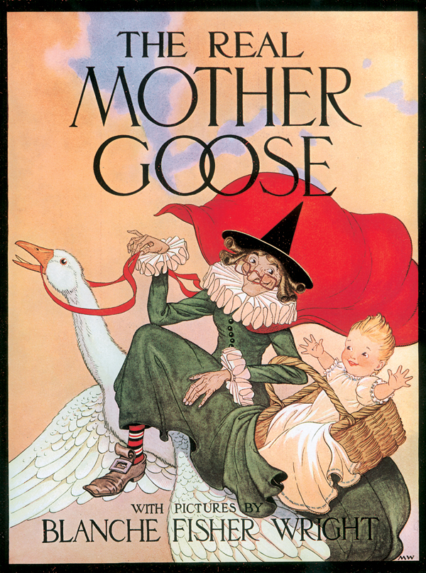 Blanche Fisher Wright's cover artwork for the Rand McNally 1916 book The Real Mother Goose